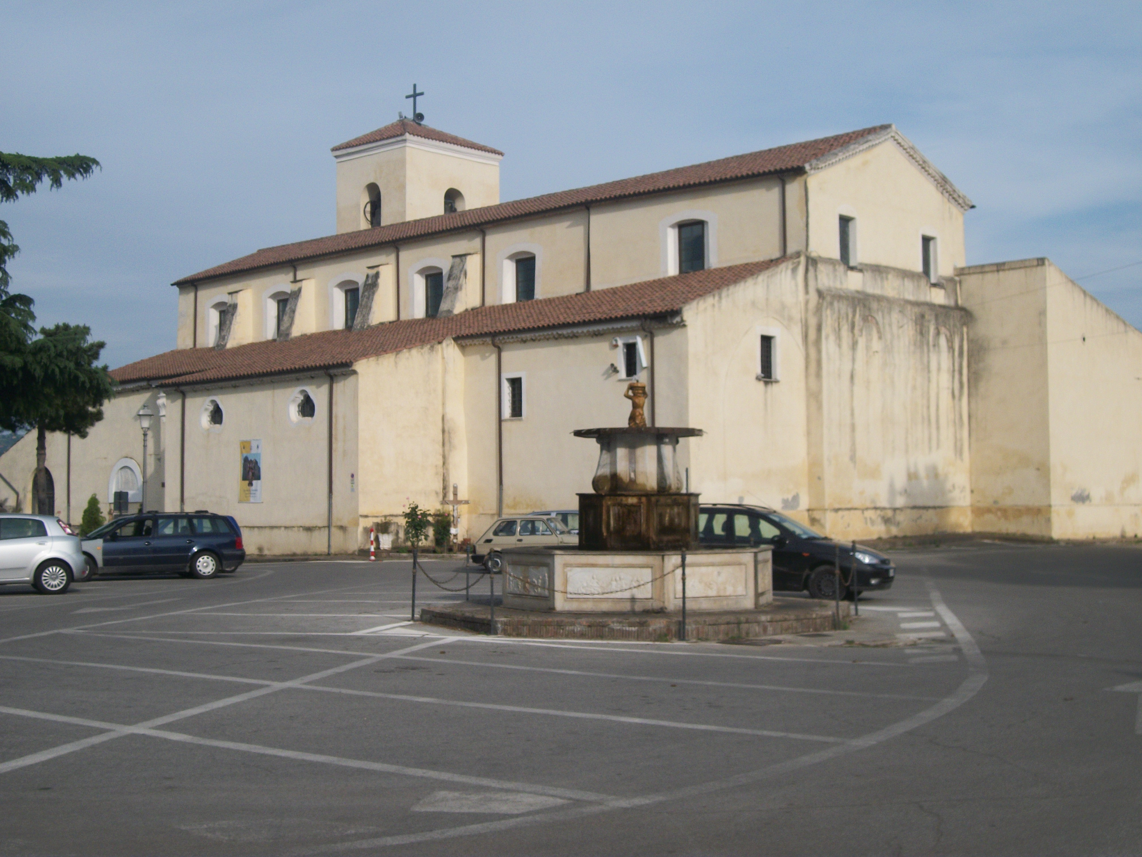 Sanctuary of Madonna del Castello